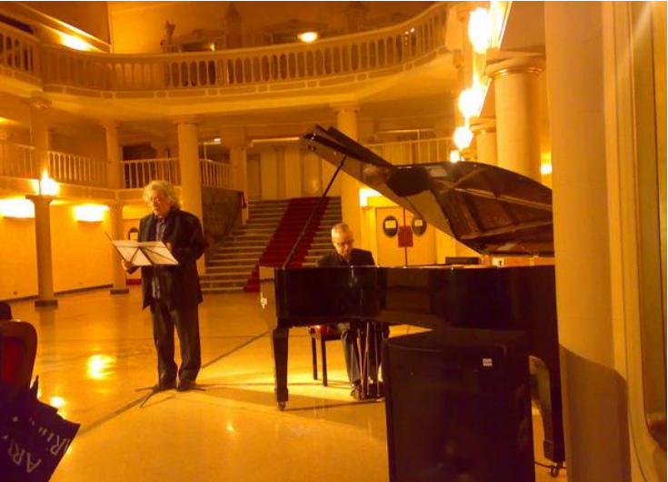 Beppe Costa reads with the music of the pianist Giovanni di Rienzo at the Politeama Greco theater in Lecce